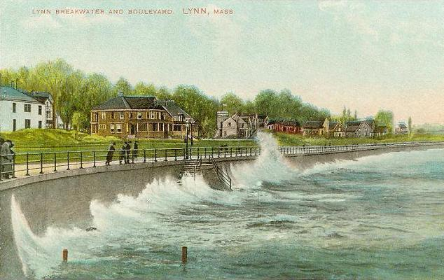 Lynn Breakwater and Boulevard, Lynn, MA; from a 1908 postcard.